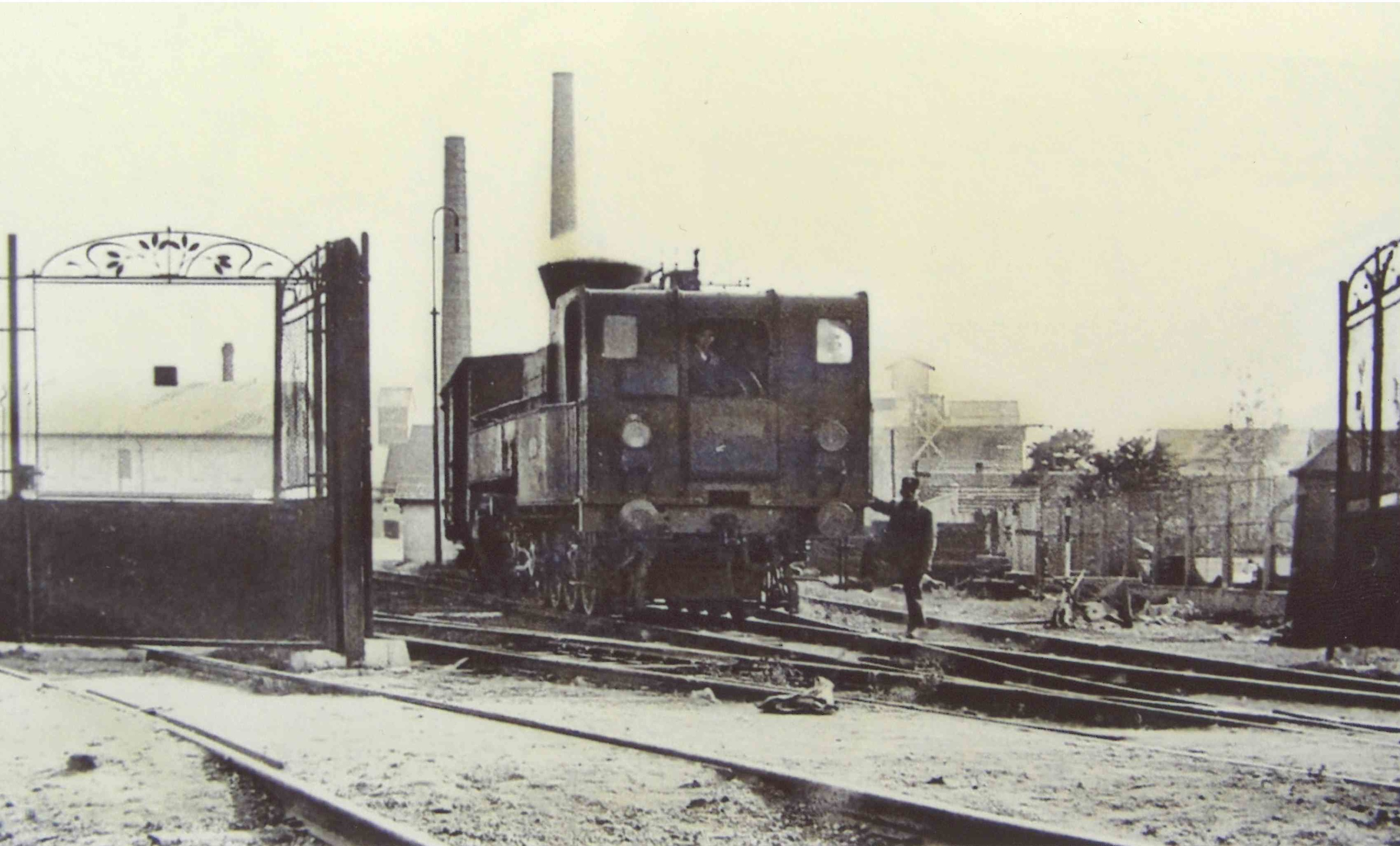 Kostelec nad Labem - sugar factory